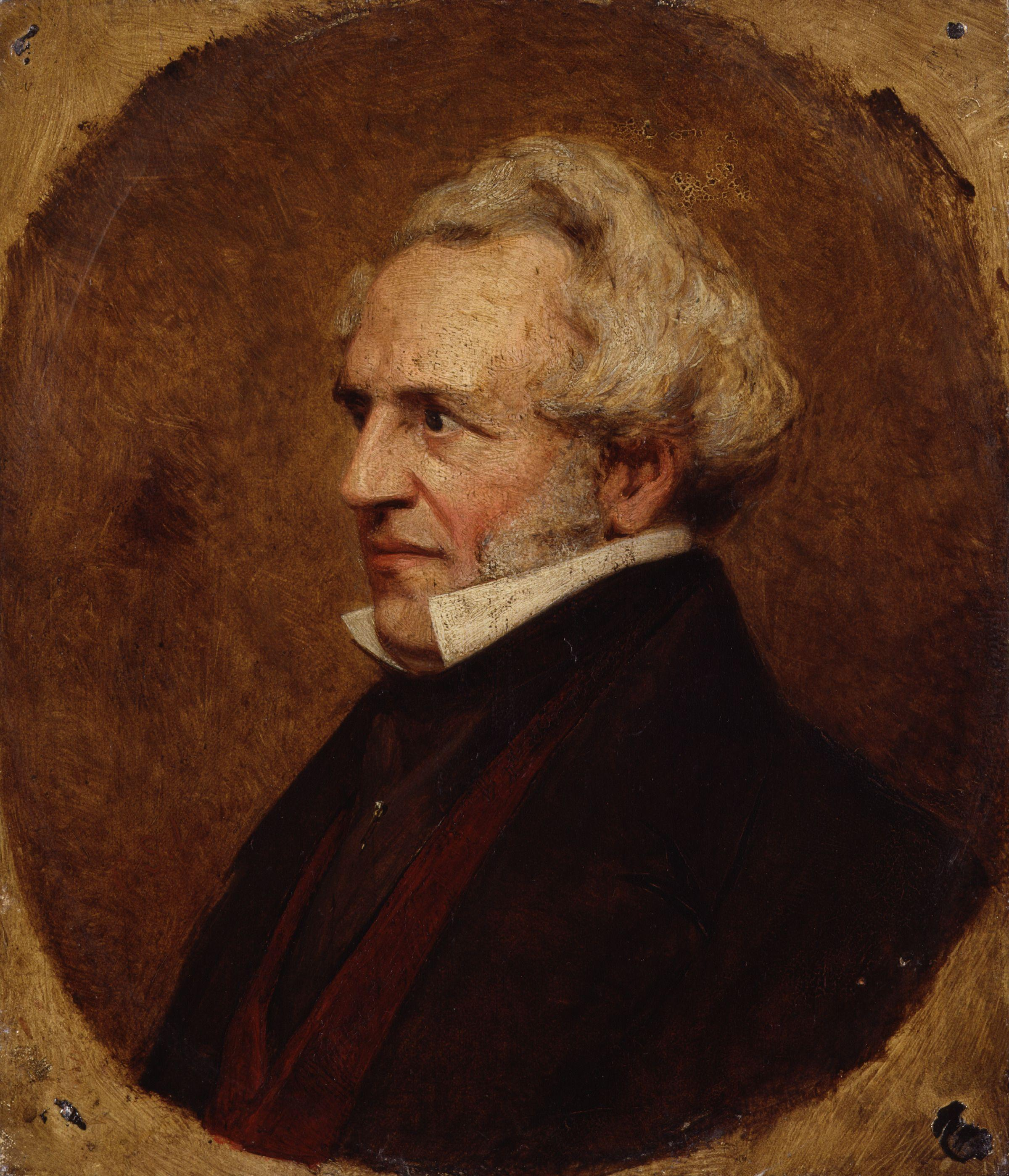 James Silk Buckingham, by Clara S. Lane, given to the National Portrait Gallery, London in 1929. All images in this batch have a known author, but have manually examined for strong evidence that the author was dead before 1939, such as approximate death dates, birth dates, floruit dates, and publication dates.